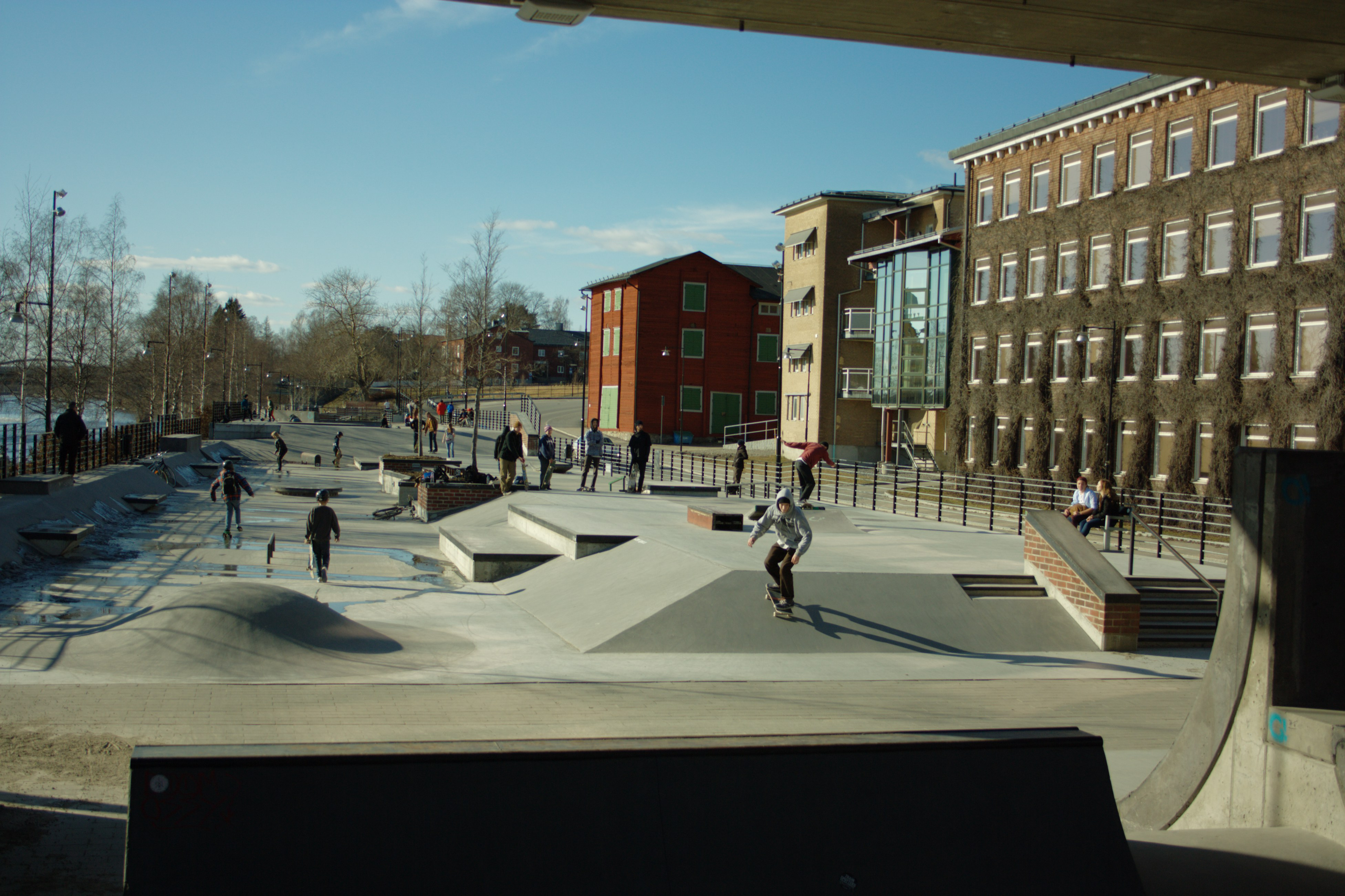 skateboard park in central Umeå